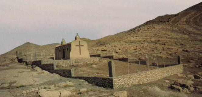 The Iraqi city of Alqosh, in Ninewa.